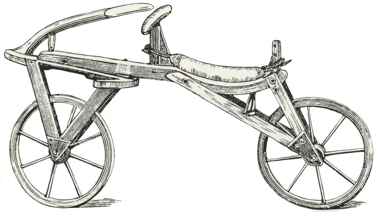 One of the first Draisins built by Karl von Drais